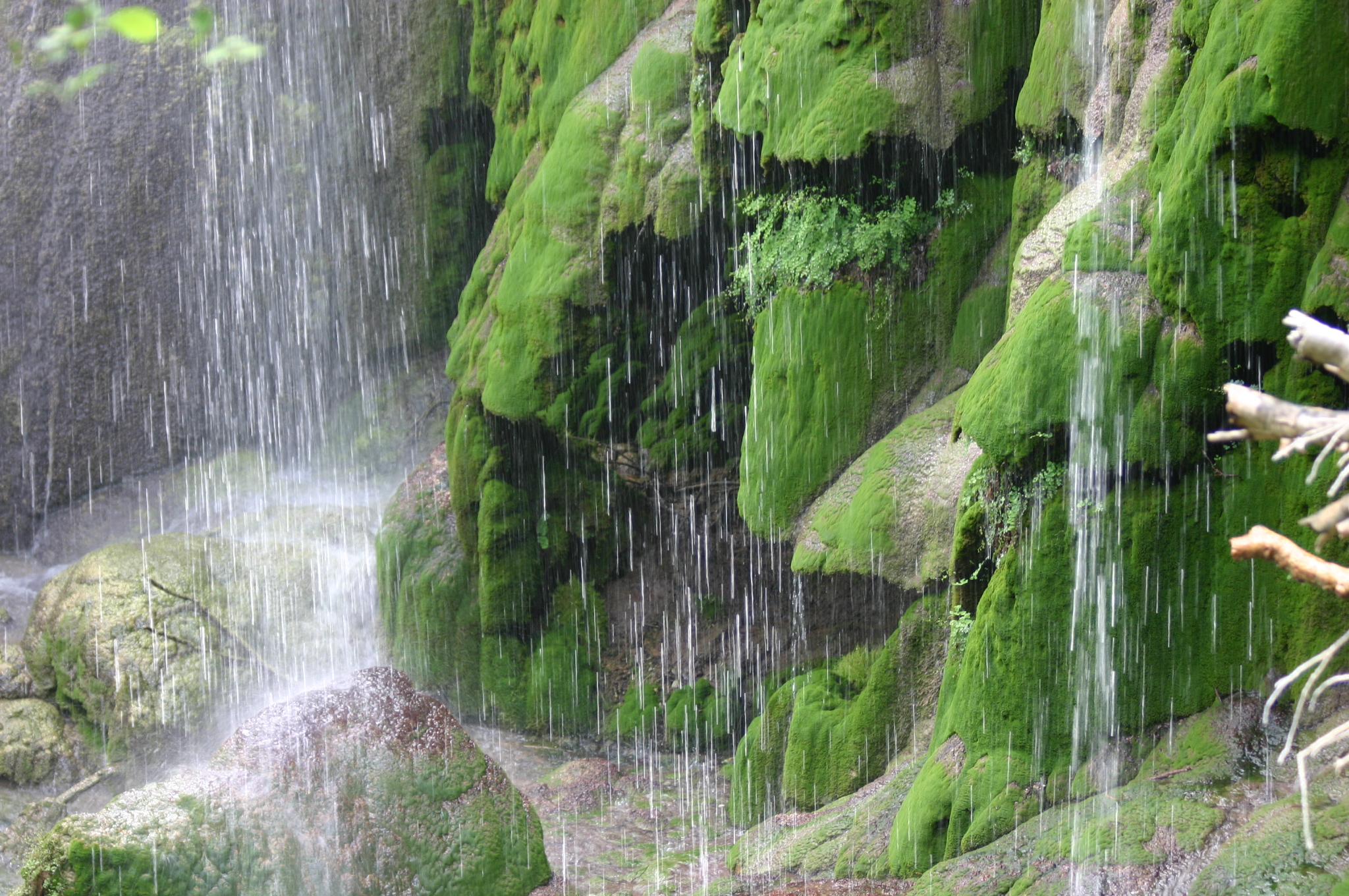 The base of Gorman Fall, which looks like raining. Falls are usually gorgeous, but this fall is among the few that is beautiful instead. Mosses growing there gives the picture a nice green hue.